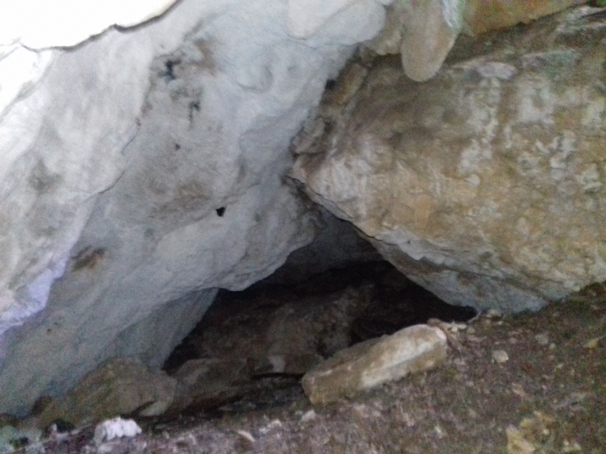 Ramnishte cave, near Prilep, Macedonia